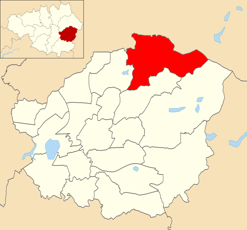 Map showing location of Mossley Ward within Tameside Metropolitan Borough Council.